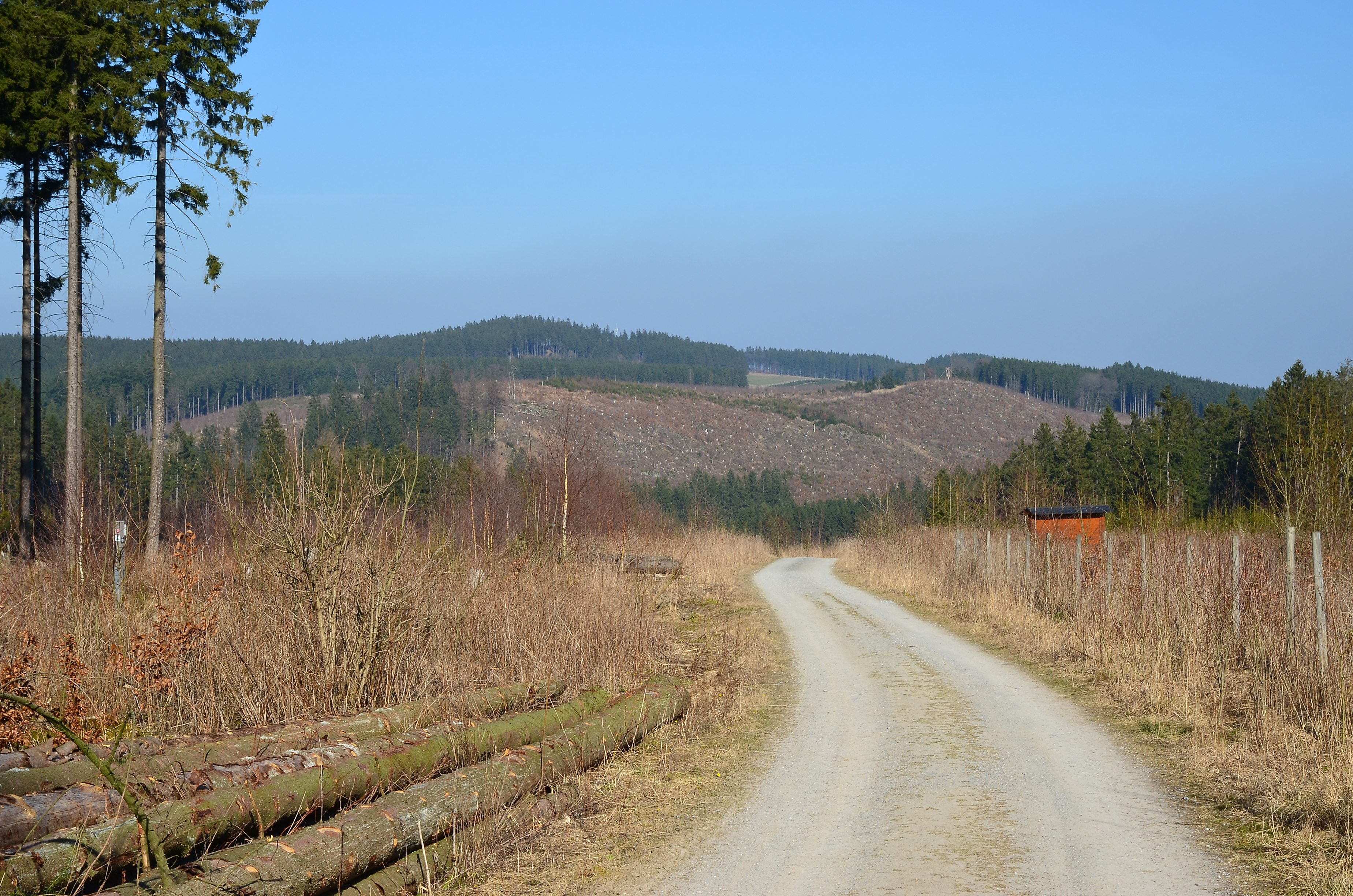 Seven years after Kyrill are fallow to look prepared for afforestation areas and afforested.